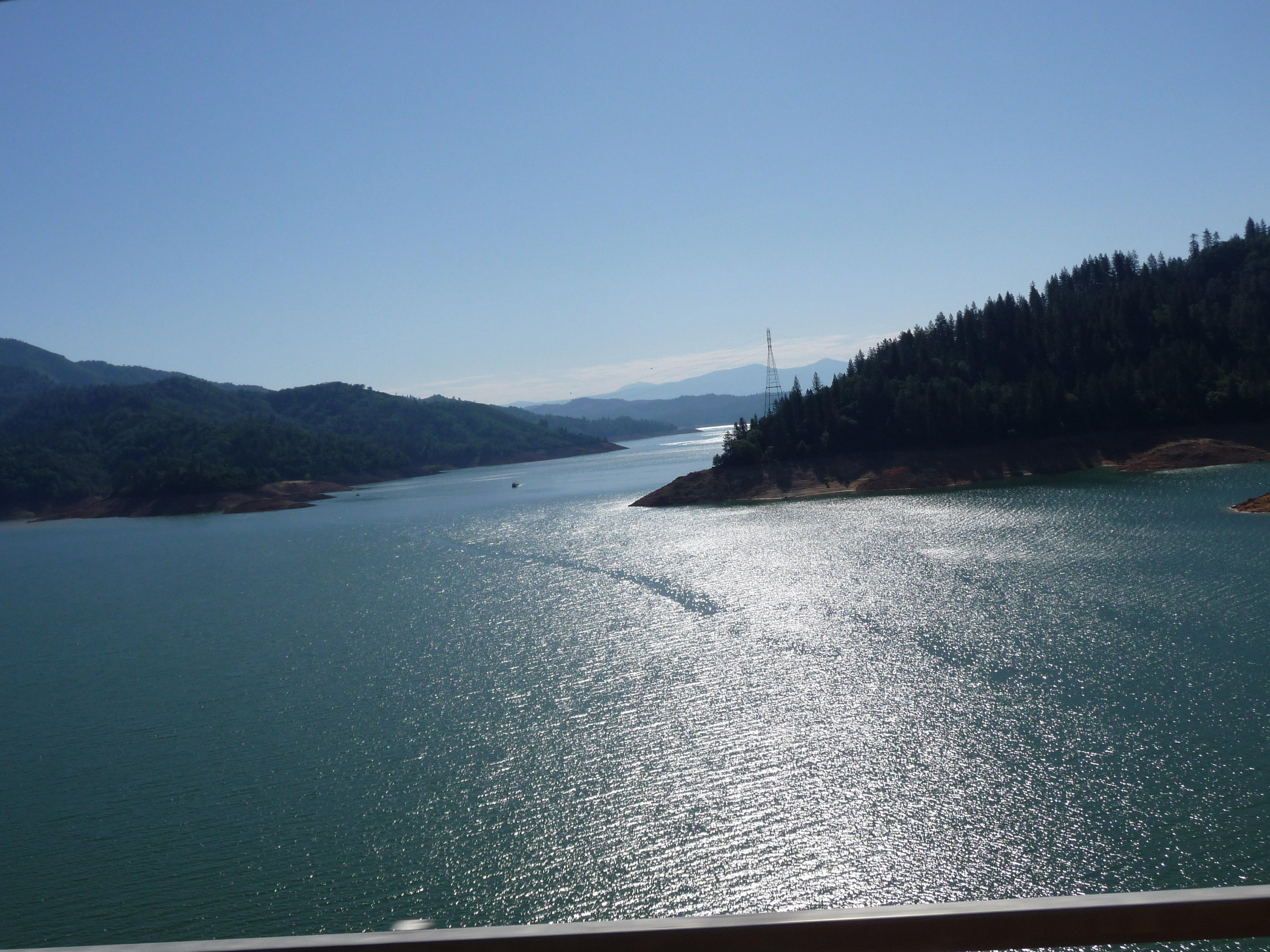 Lake Shasta from I-5.